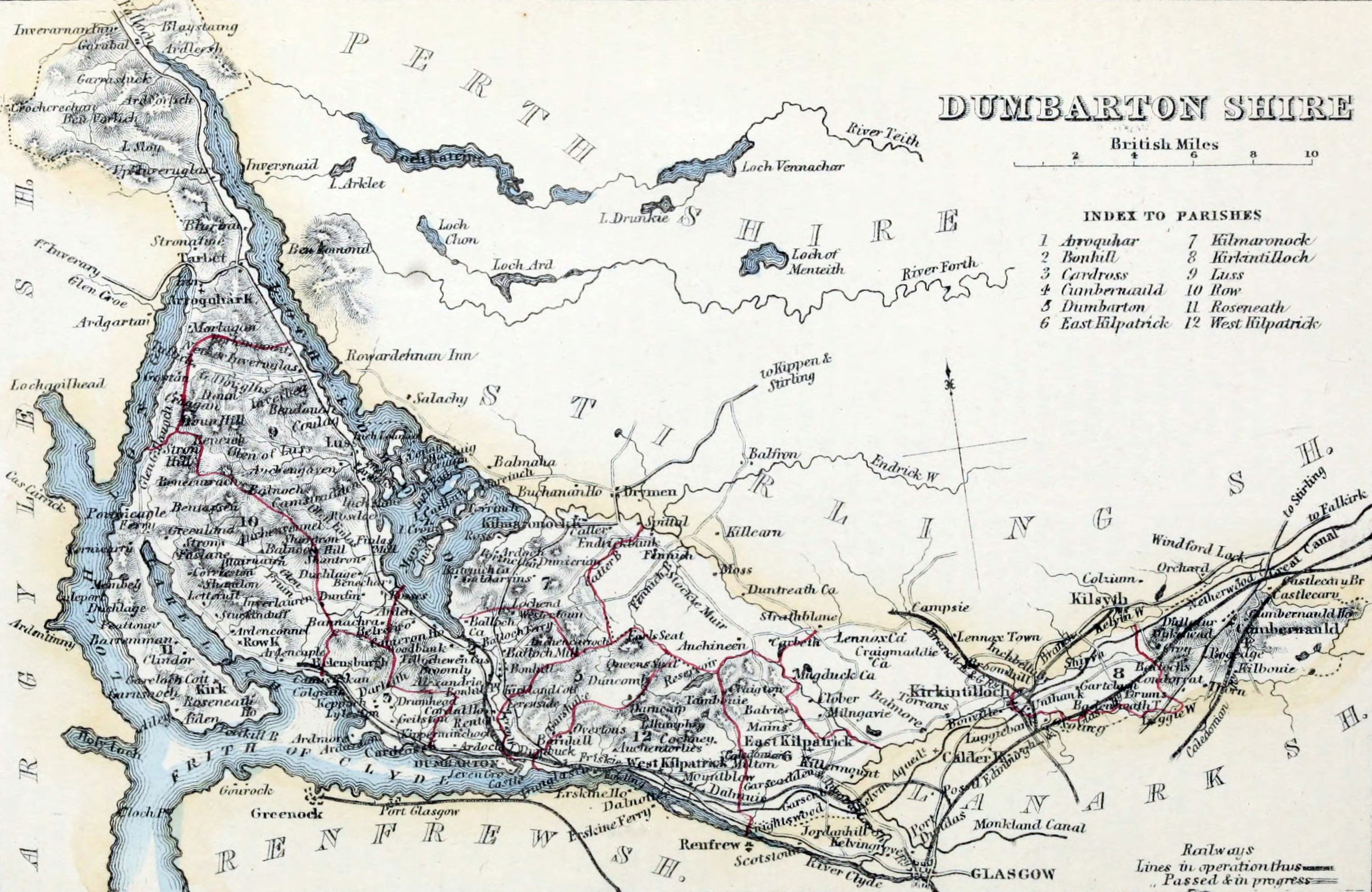 DUMBARTONSHIRE Civil Parish map. The Imperial gazetteer of Scotland. Vol.I. by Rev. John Marius Wilson.